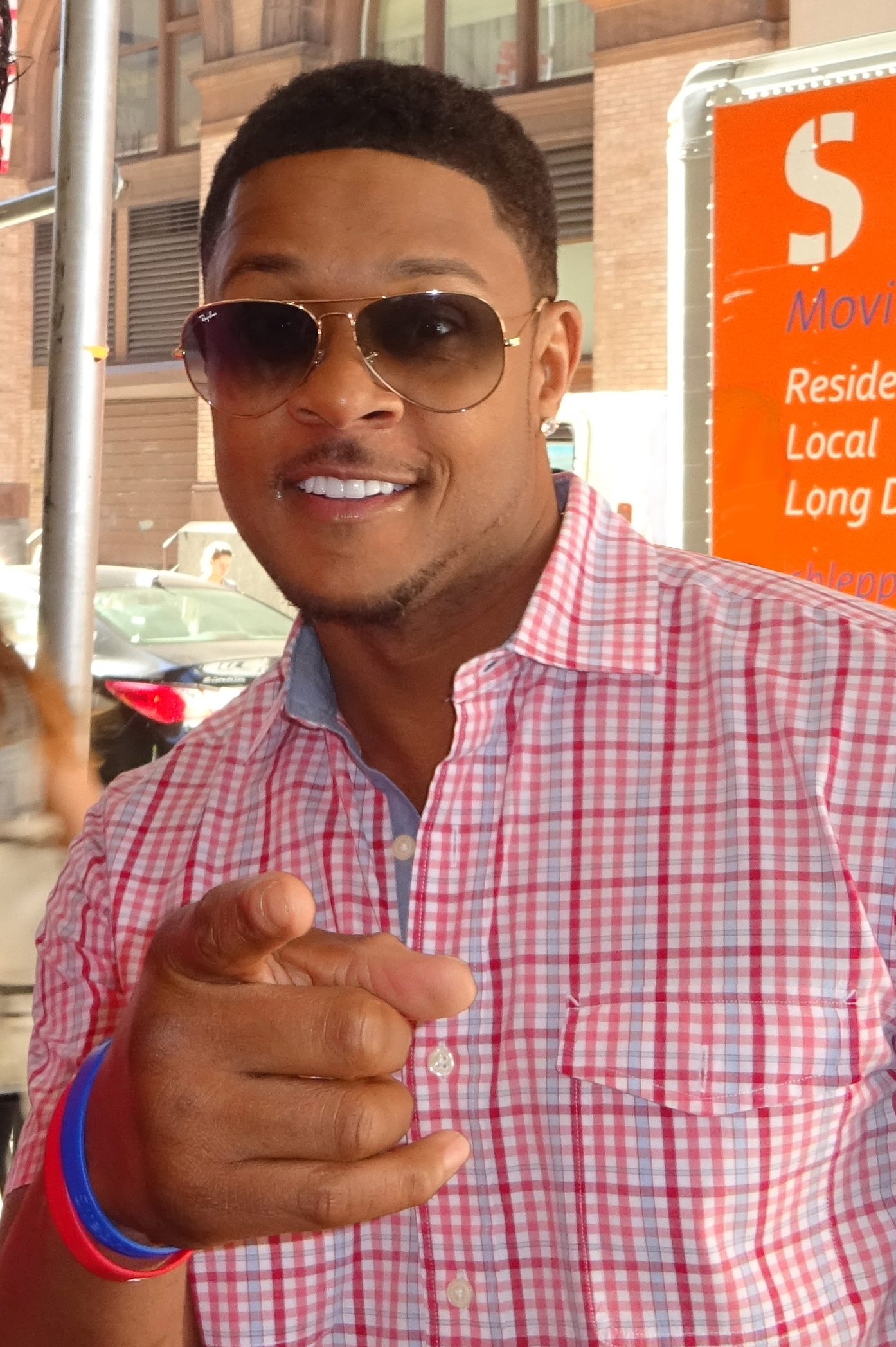 Darrell on Ray Donovan. Sept 2016 NYC